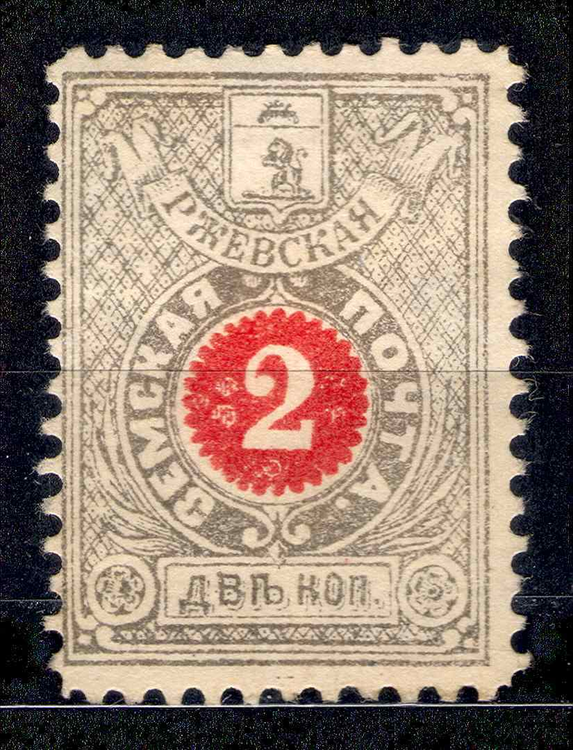 1891 Rzhev Zemstvo stamp, Tver Governorate, Russia, 2 kopecks, Sol#27, Ch#11